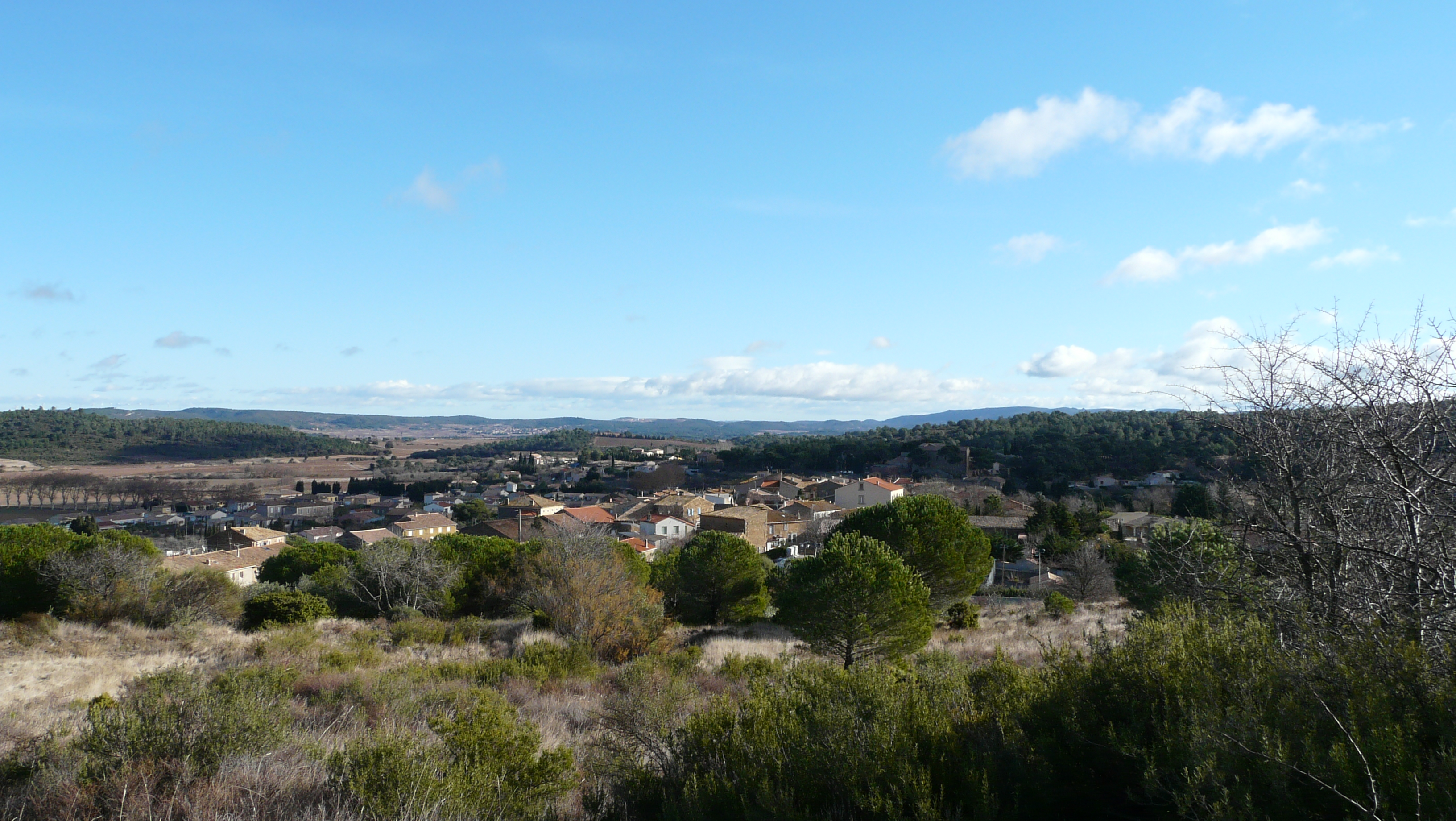 View of Boutenac village in departement of Aude in France